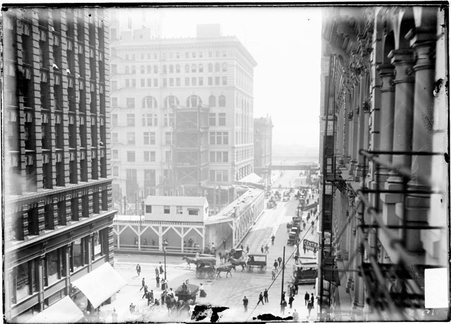 Old photography of downtown Chicago